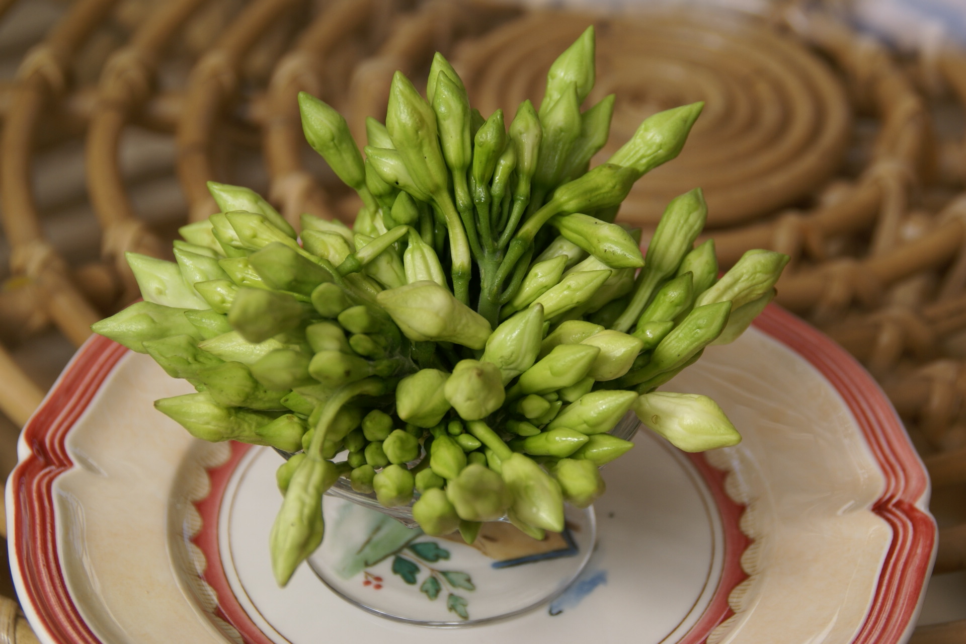 Flowers of fernaldia pandurata (loroco) - Foto taken in Guatemala City